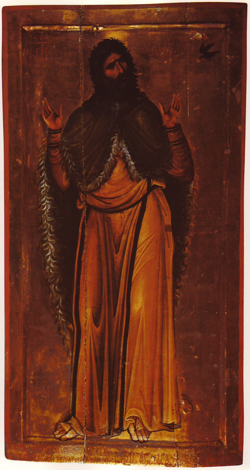 Prophet Elijah: icon with a very early signature by "Stephanos", counterpiece of a Moses icon by the same artist. Around 1200. 130 x 67 cm